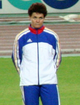 World Athletics Championships 2007 in Osaka - Participants in the women*s javelin throw final: Felicia Tilea-Moldovan